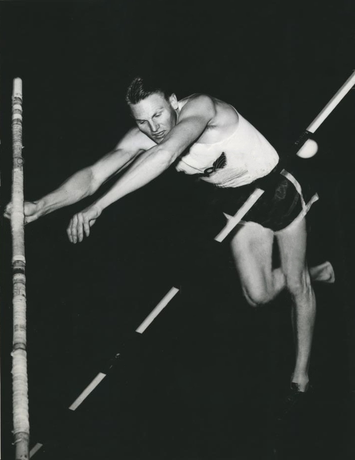 1942 Press Photo Cornelius Warmerdam, PC vaulting star, at Chicago Relays